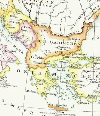 The empire of the Caliphs to 945. Map of the Historical Atlas of Gustav Droysen, 1886